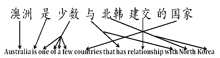 The English sentence "Australia is one of a few countries that has relationship with North Korea" is expressed in Chinese as: "Australia is (one of a few) (North Korea)-(in relation with) country", where the plural of the last noun (country) is implied by the semantic context, or here the leading qualifier (one of a few), but not spelled.